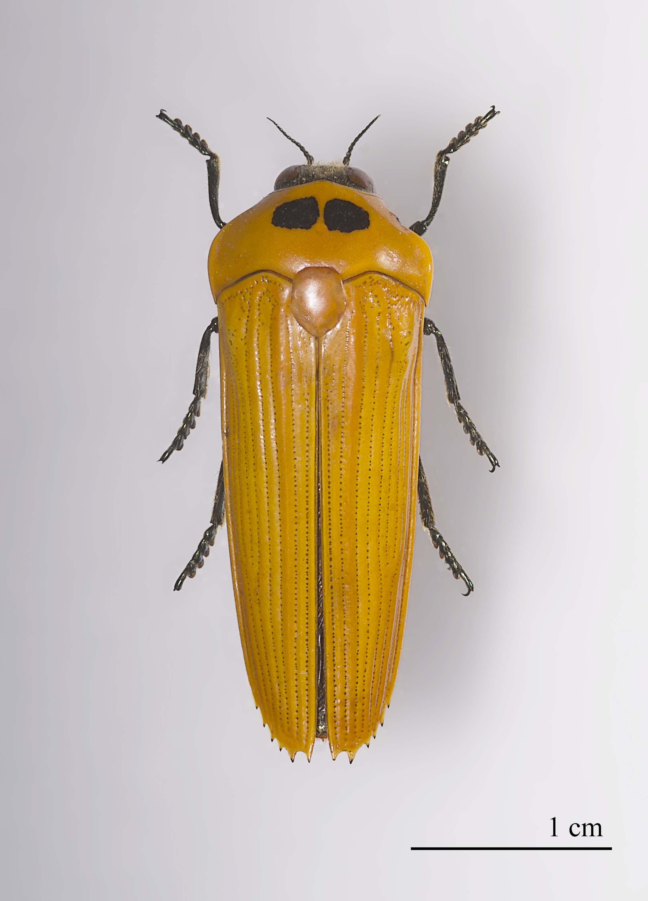 Male specimen Locality: Florencia, Colombia